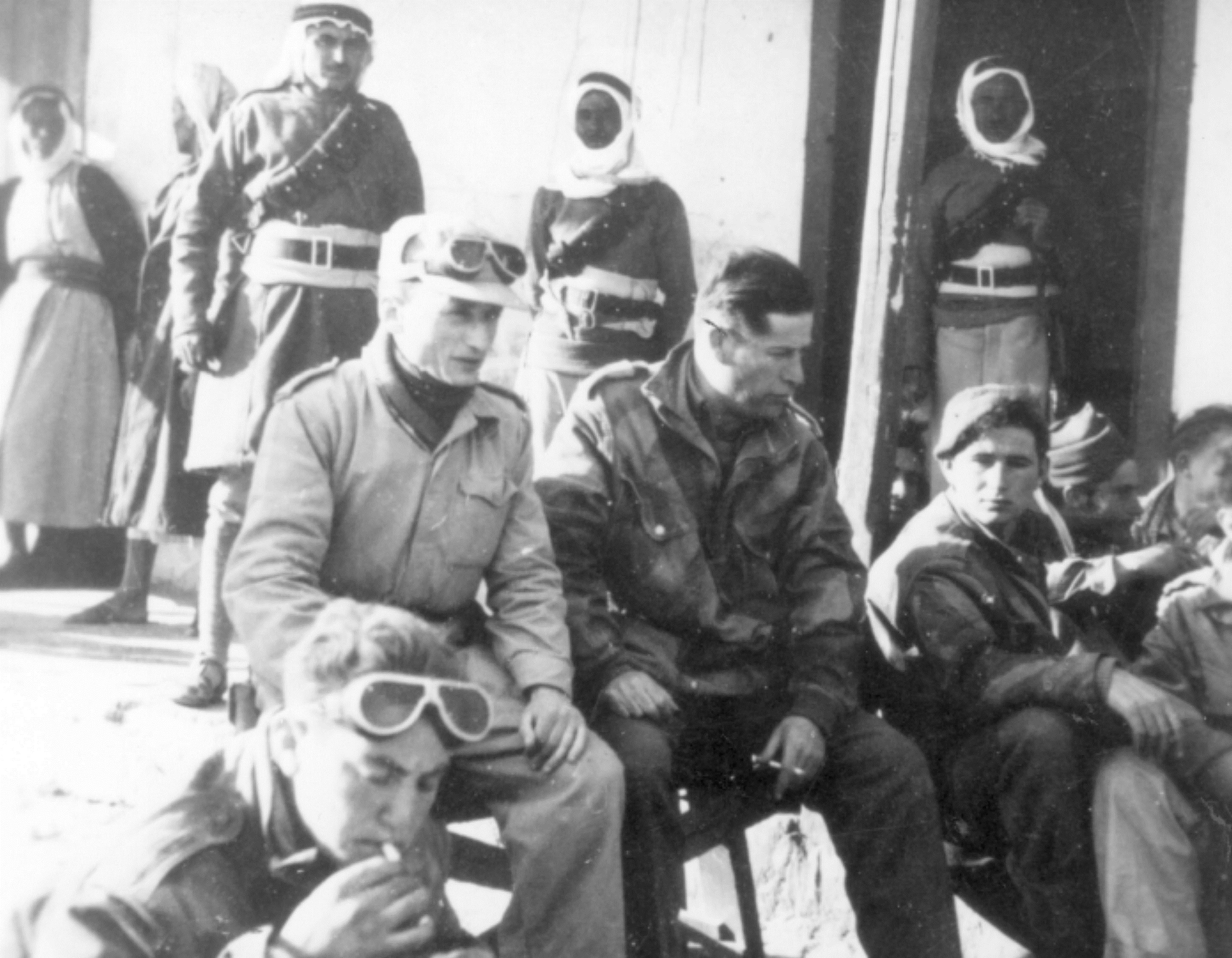 The Palmach, Israel Defense Forces